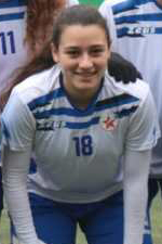 Celine Al Haddad at SAS, against BFA (2019-20)